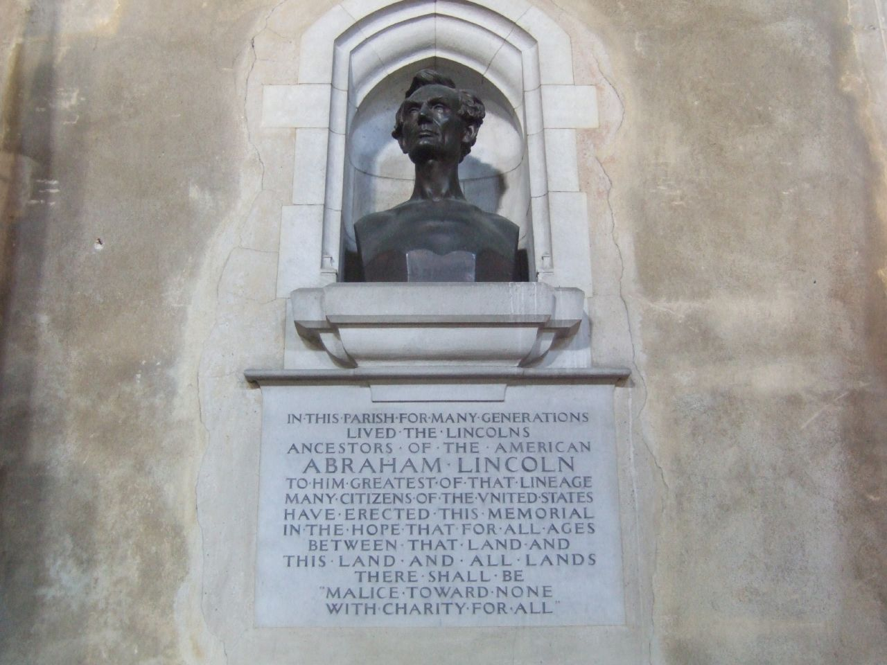 Monument to Abraham Lincoln in St Andrew's Church, Hingham, Norfolk, England. Abraham Lincoln's ancestor Samuel Lincoln resided at Hingham before leaving England for the Massachusetts Bay Colony. Image courtesy of Brokentaco, .